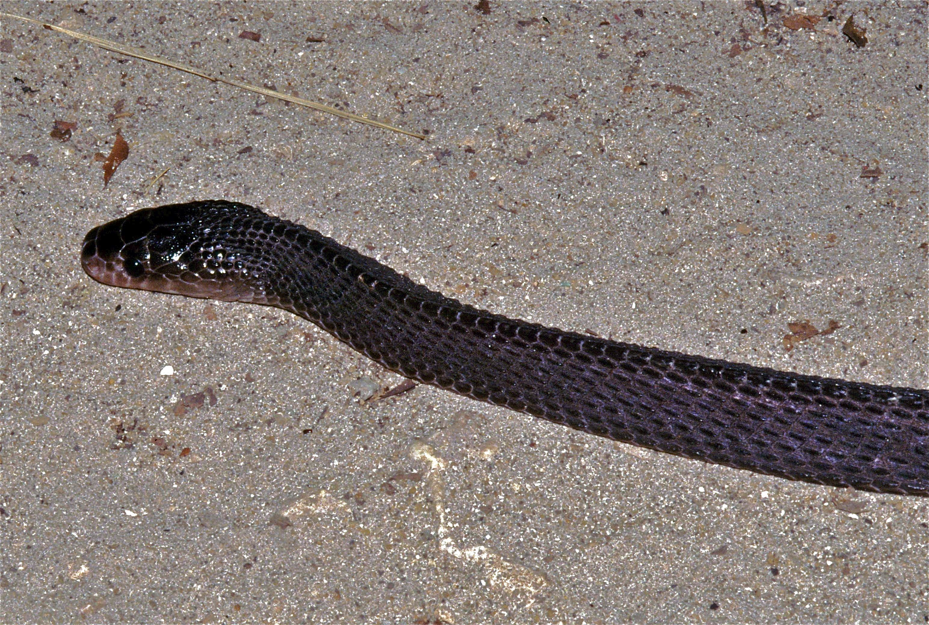 Snake Park, Watamu, KENYA Scanned Slide from 2002